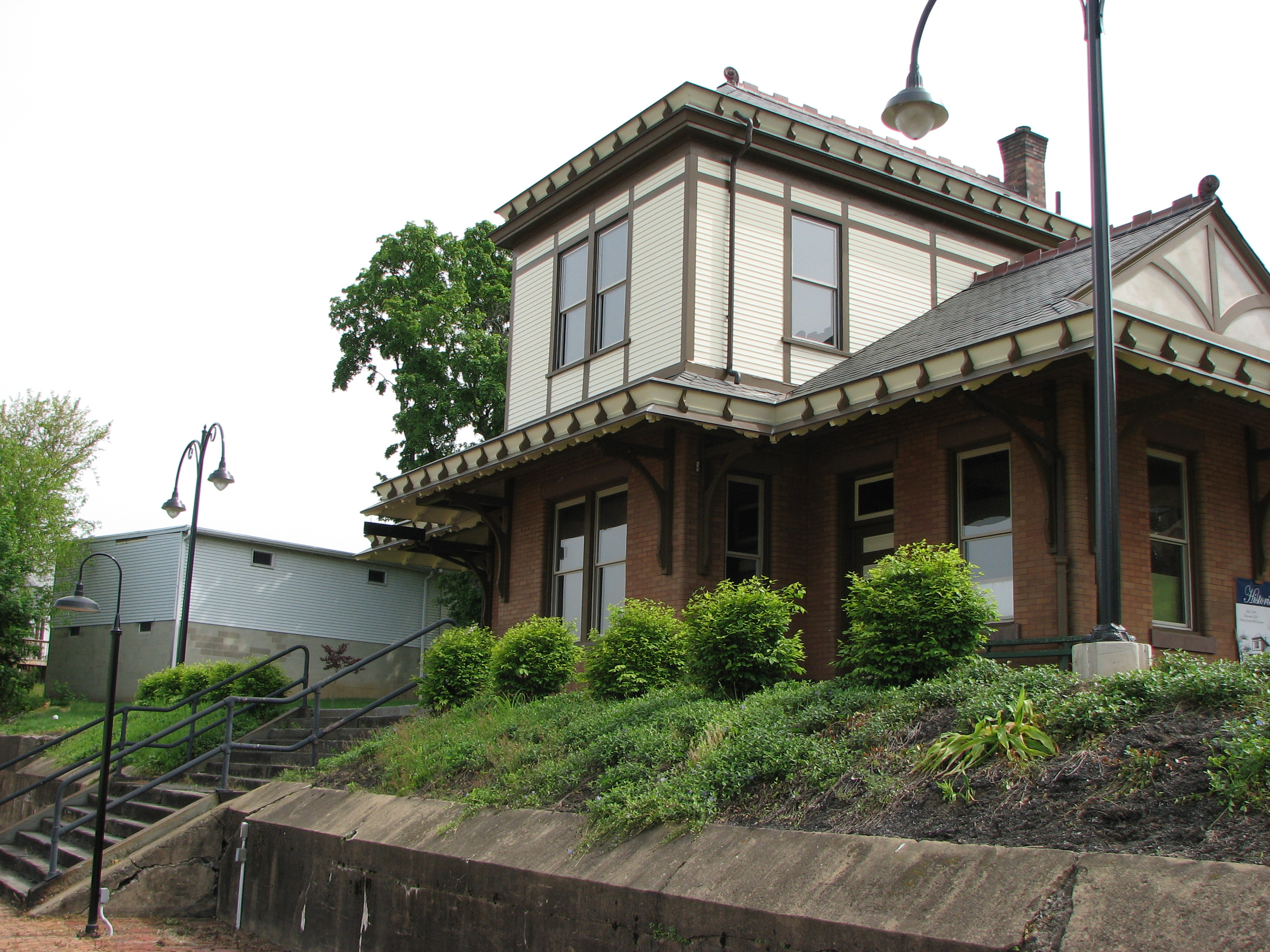 The Millersburg Passenger Rail Station, along the Northern Central Railway (later Pennsylvania Railroad, later Norfolk Southern) in Millersburg, Dauphin County, Pennsylvania.